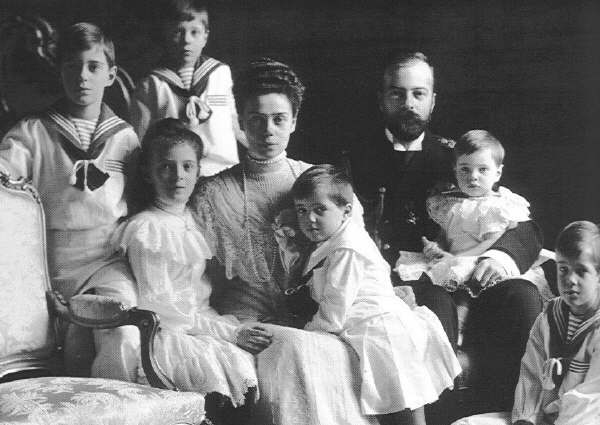 Xenia Alexandrovna of Russia